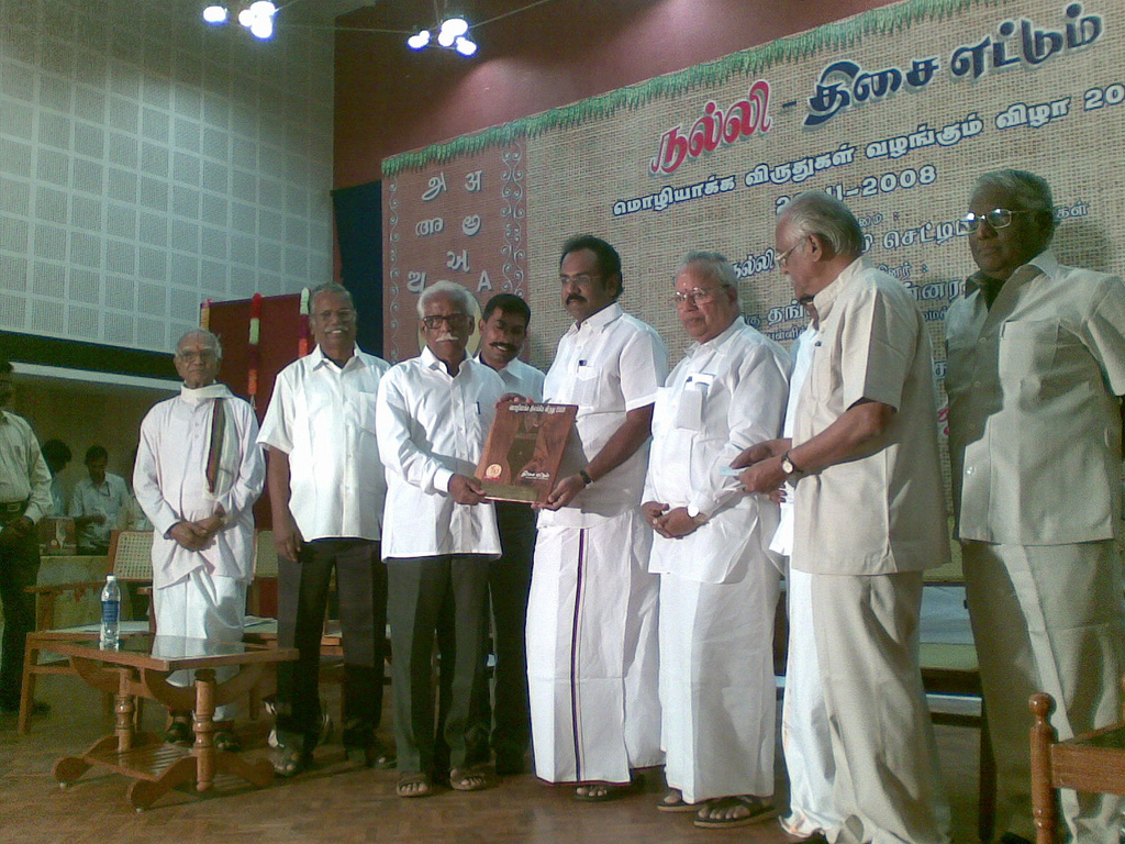 Prof. N.Dharmarajan receiving 'lifetime' achievement award for translation from English to Tamil and Russian to Tamil. Tamil Nadu School Education Minister Thangam Thennarasu is presenting the award. Date of Image : 02 November 2008